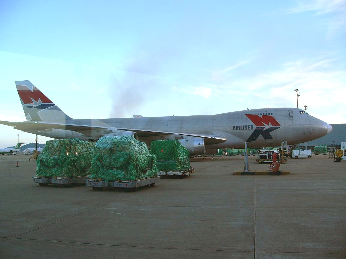 (ex-Cargolux LX-DCV) MK Airlines Boeing 747-2R7F 9G-MKL Photo by Ellery Cheng in Macau Intl Airport. Jul. 31st 2005